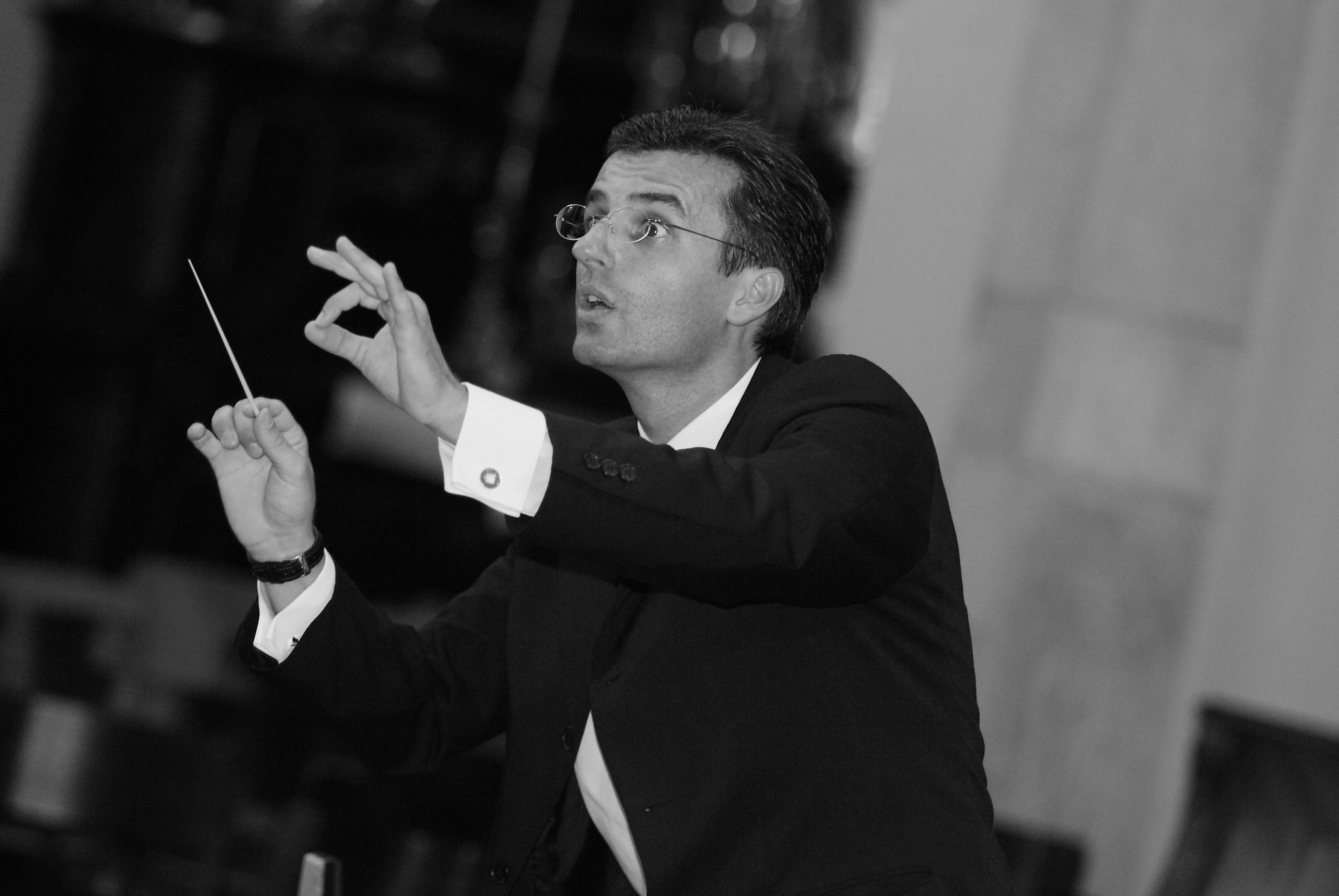 The conductor of the Kammerchor Klagenfurt, Christian Liebhauser-Karl, Klagenfurt / Carinthia / Austria / EU.